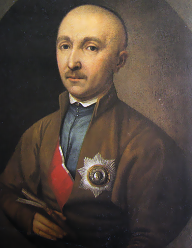 Portrait of Szczepan Zambrzycki